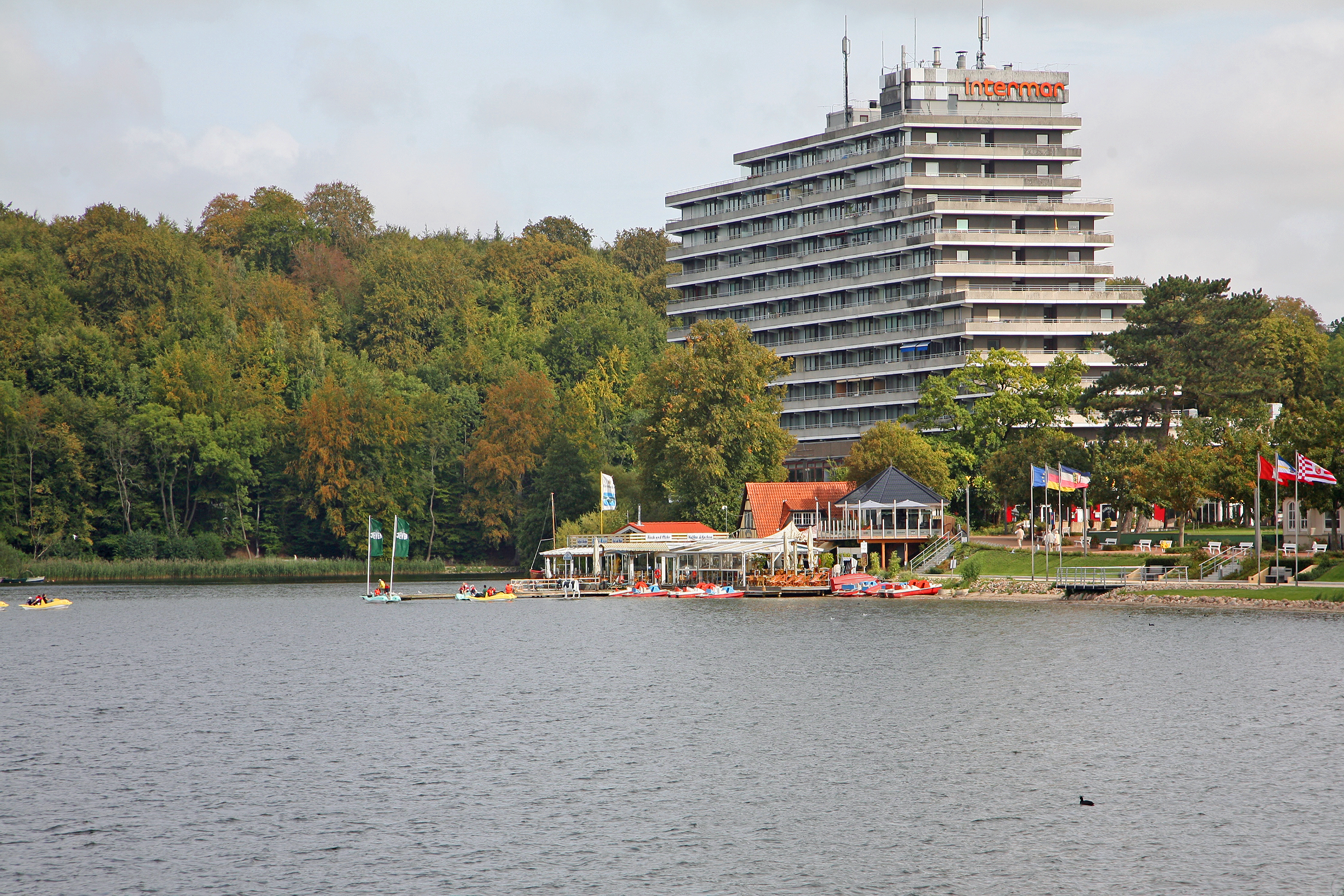 Dieksee promenade in Malente. The Dieksee (386 hectares) in the Holstein Switzerland is connected to the other lakes in the Holstein Lake District (Lake Eutin, Kellersee, Plöner See and Ukleisee).